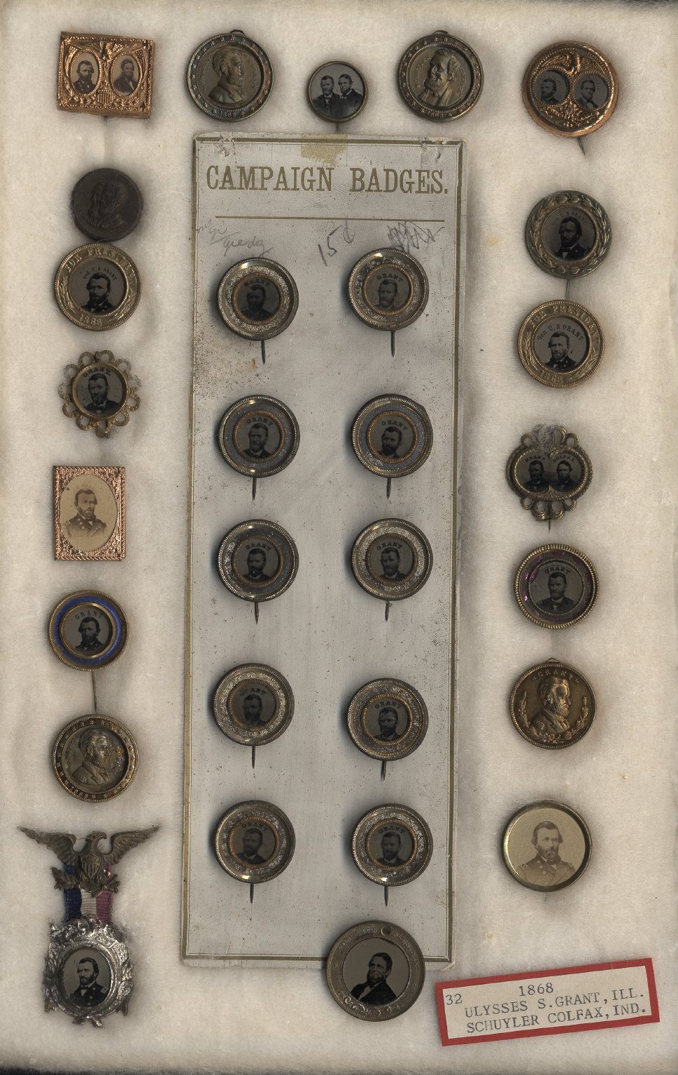 Collection: Cornell University Collection of Political Americana, Cornell University Library Repository: Susan H. Douglas Political Americana Collection, #2214 Rare & Manuscript Collections, Cornell University Library, Cornell University Title: Grant-Colfax Campaign Items, ca. 1868 Political Party: Republican Election Year: 1868 Date Made: ca. 1868 Measurement: Mount: 12 x 8 in.; 30.48 x 20.32 cm Classification: Metalwork Persistent URI: There are no known U.S. copyright restrictions on this image. The digital file is owned by the Cornell University Library which is making it freely available with the request that, when possible, the Library be credited as its source.